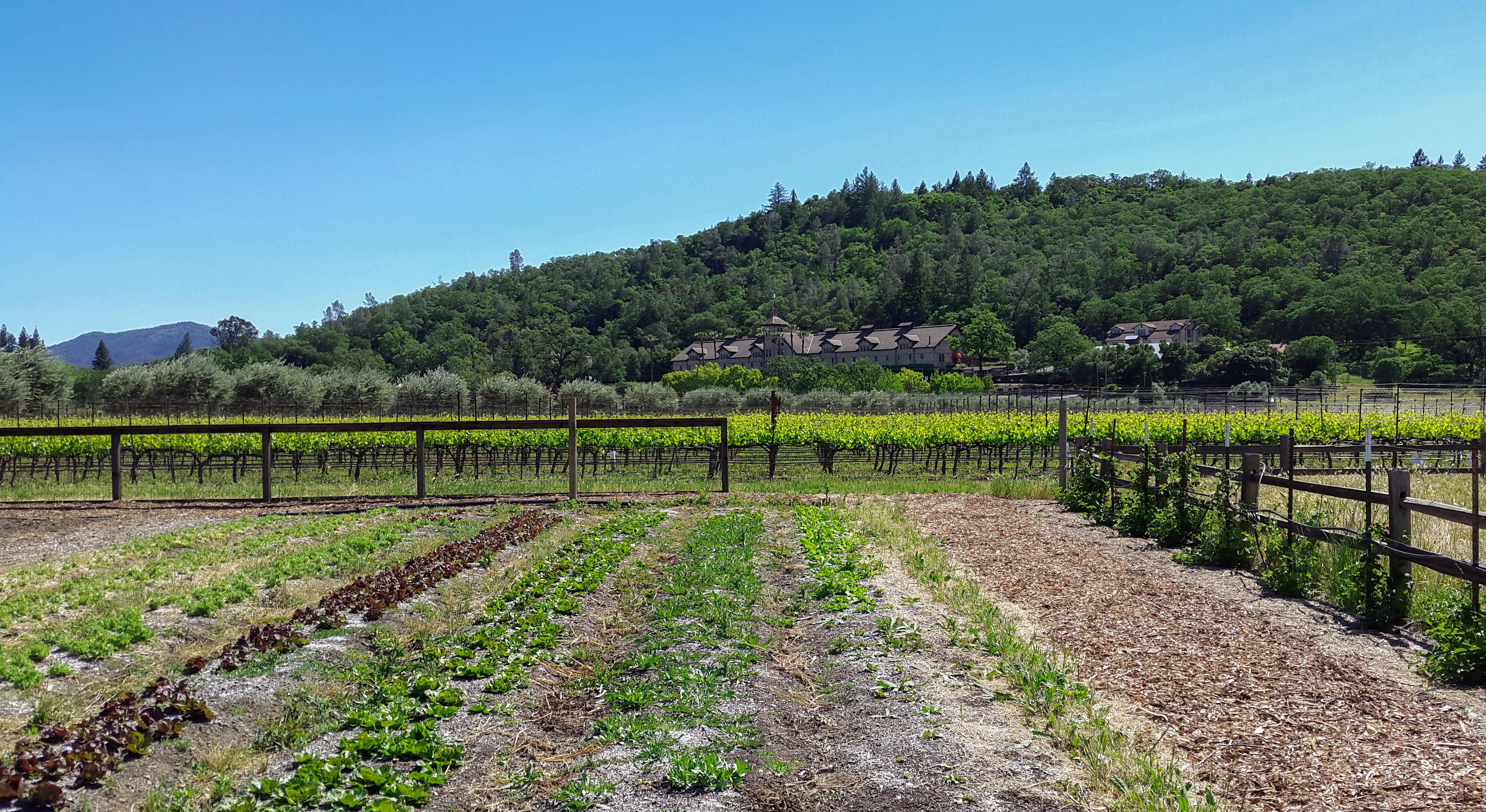 The CIA at Greystone.